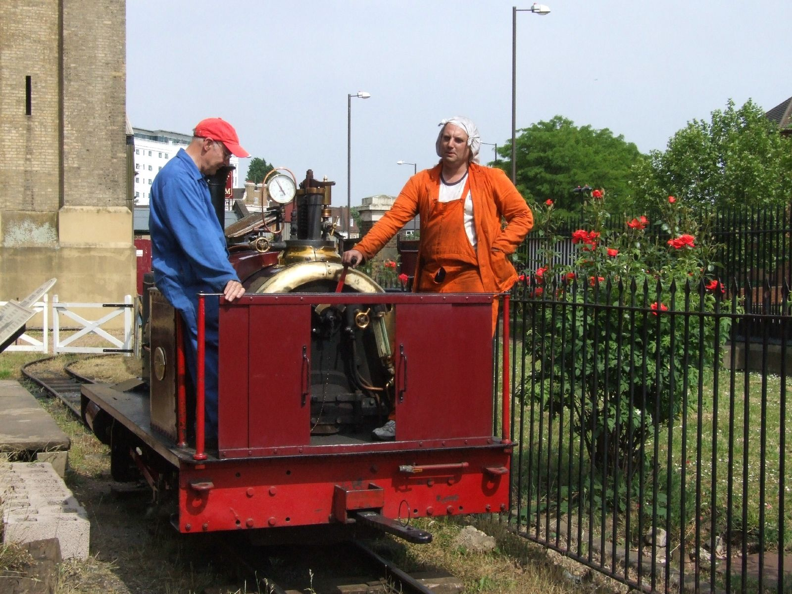 Arrow gauge steam locomotive Cloister at the Kew Bridge Steam Museum